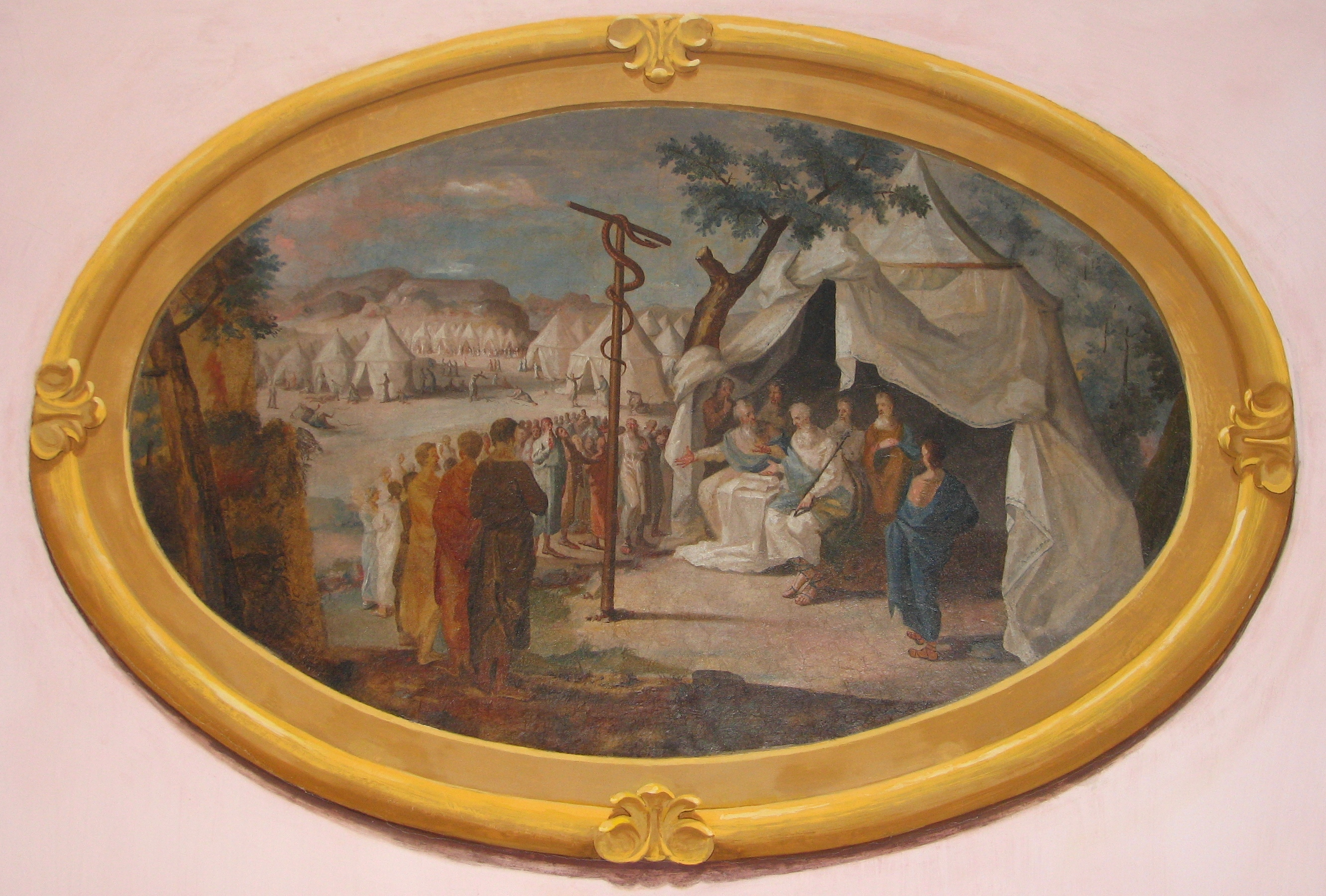 The fresco of the Brass Serpent from the sanctuary of the Greek Catholic Cathedral of Hajdúdorog, Hungary. The fresco was painted in the late 18th century.